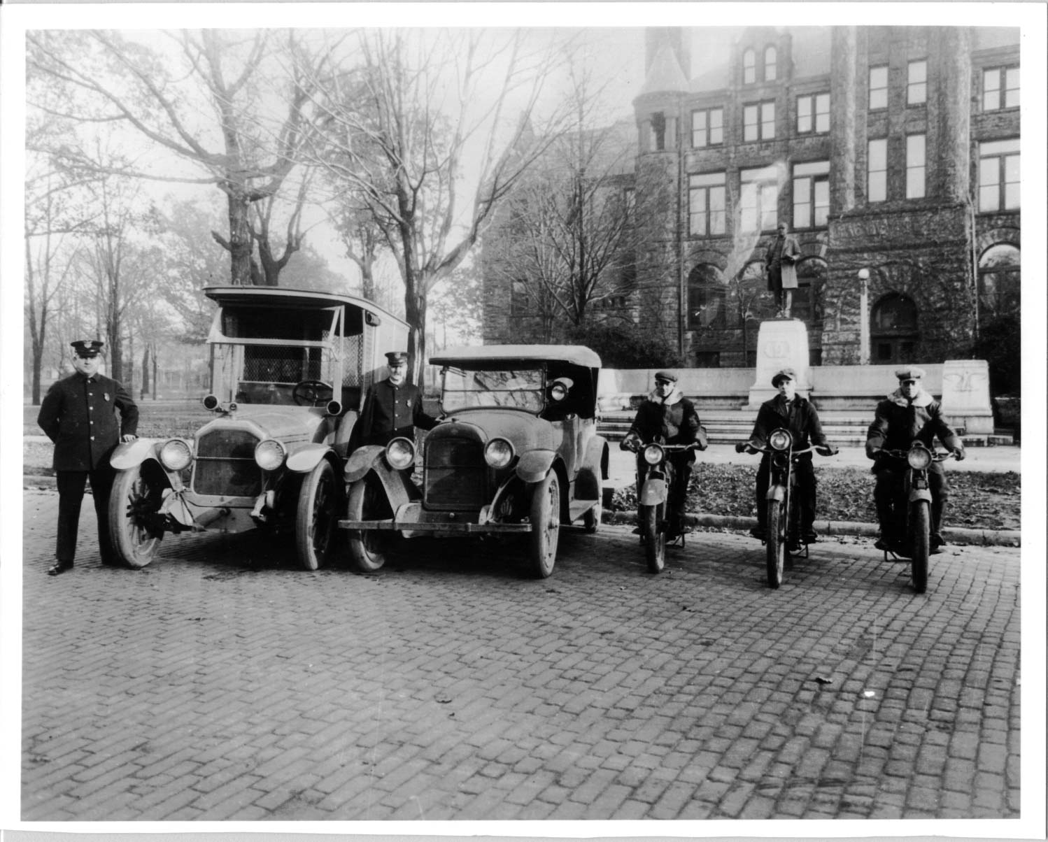 The Muskegon Police Force in 1920